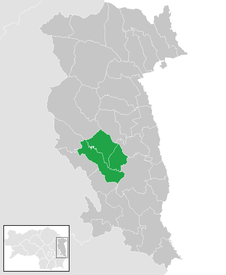 Ökoregion Kaindorf, District Hartberg, Styria